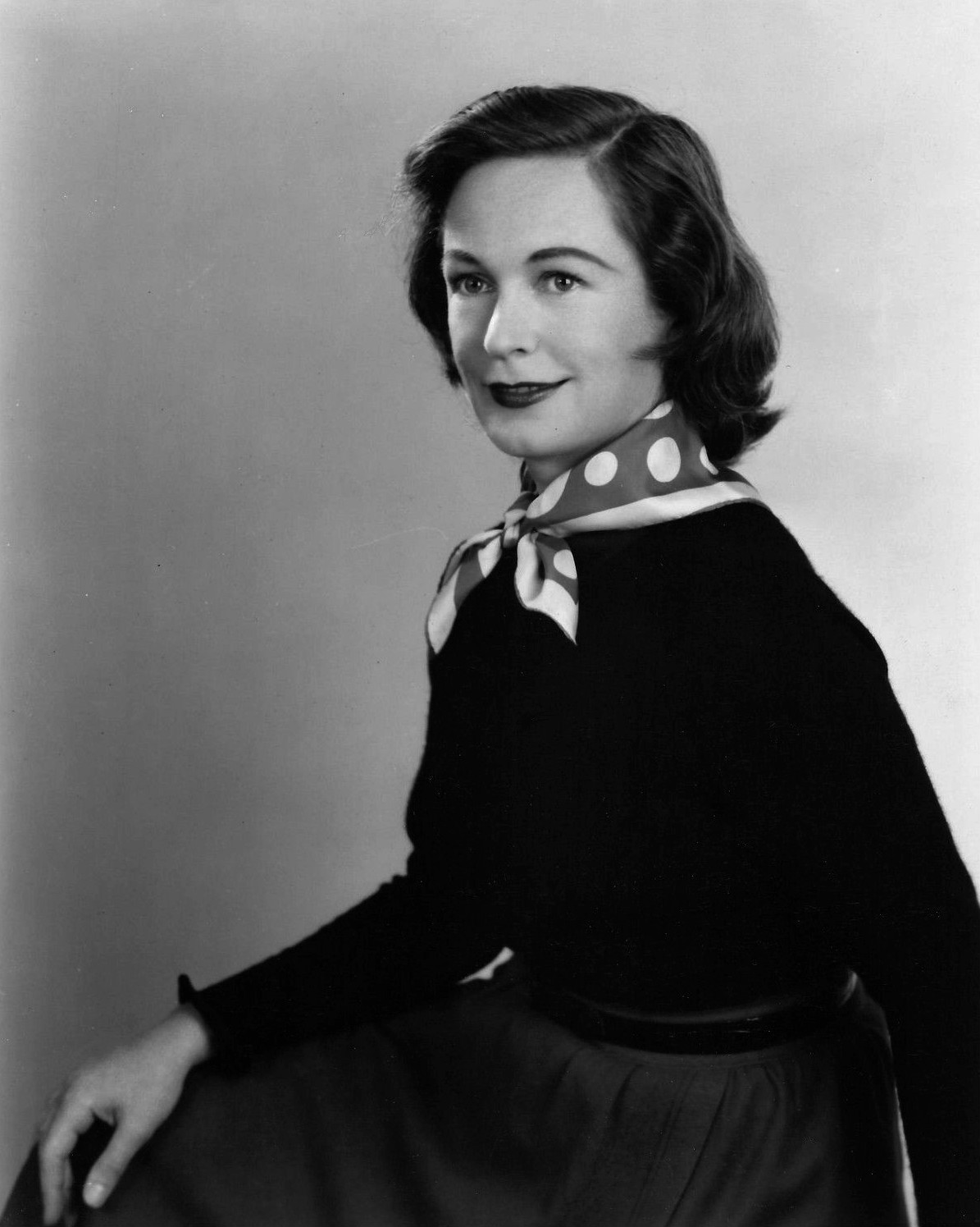 Photo of Geraldine Fitzgerald from the Broadway play Build With One Hand.